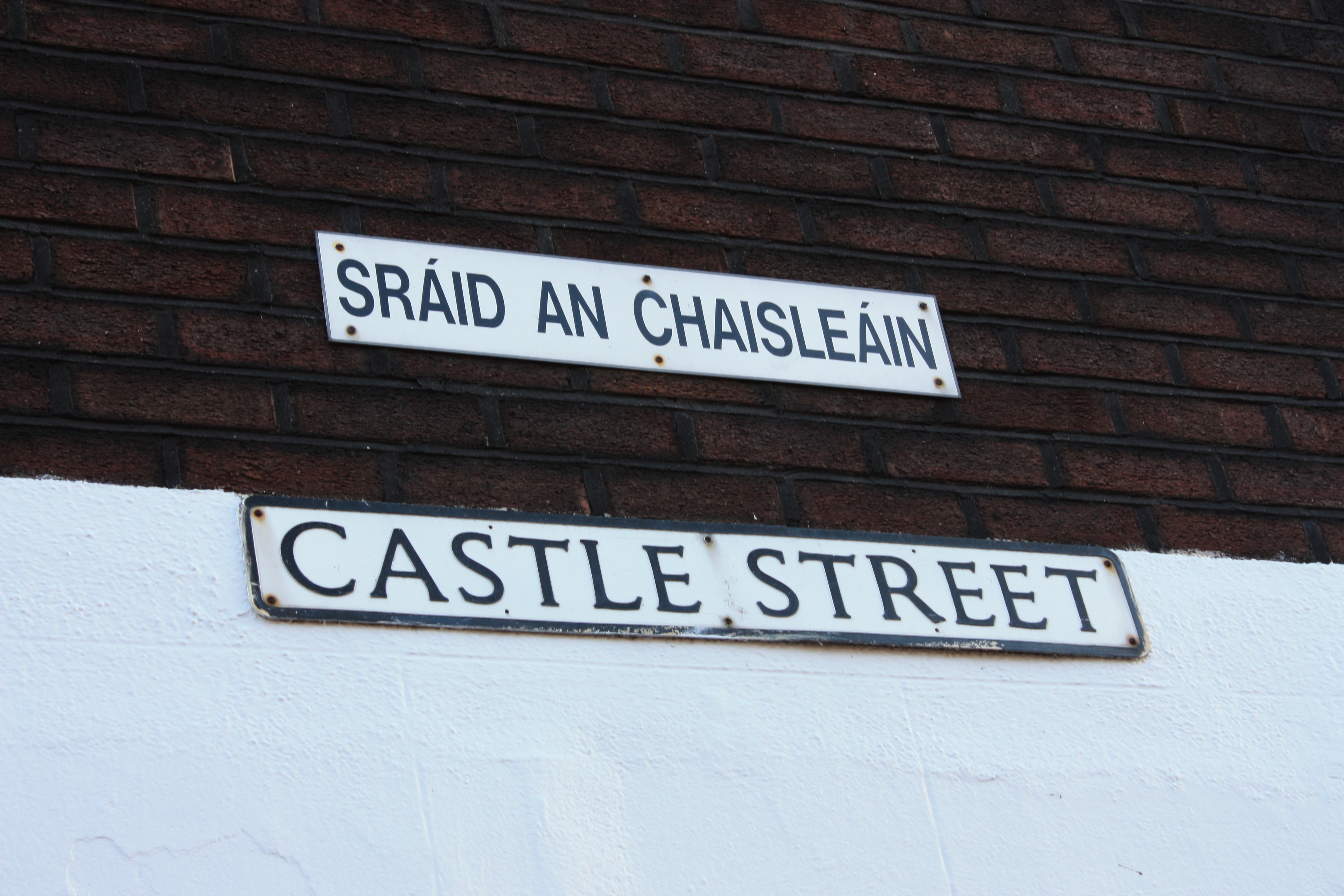 Signs in Castle Street, Strabane, County Tyrone, Northern Ireland, January 2010